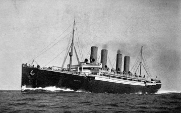 Port view of the SS Kaiser Wilhelm der Grosse